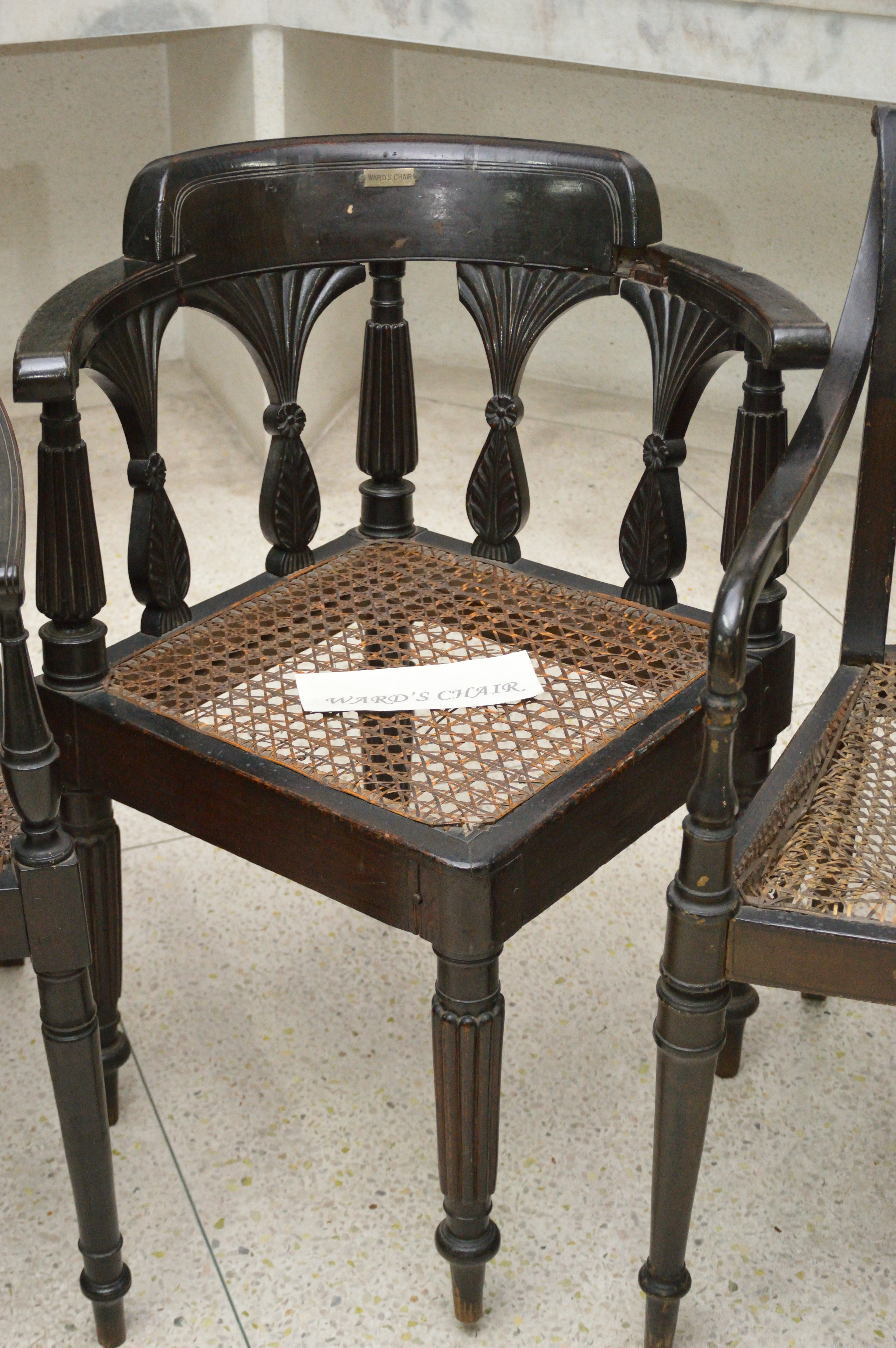 Photographed at the Serampore College, Hooghly.